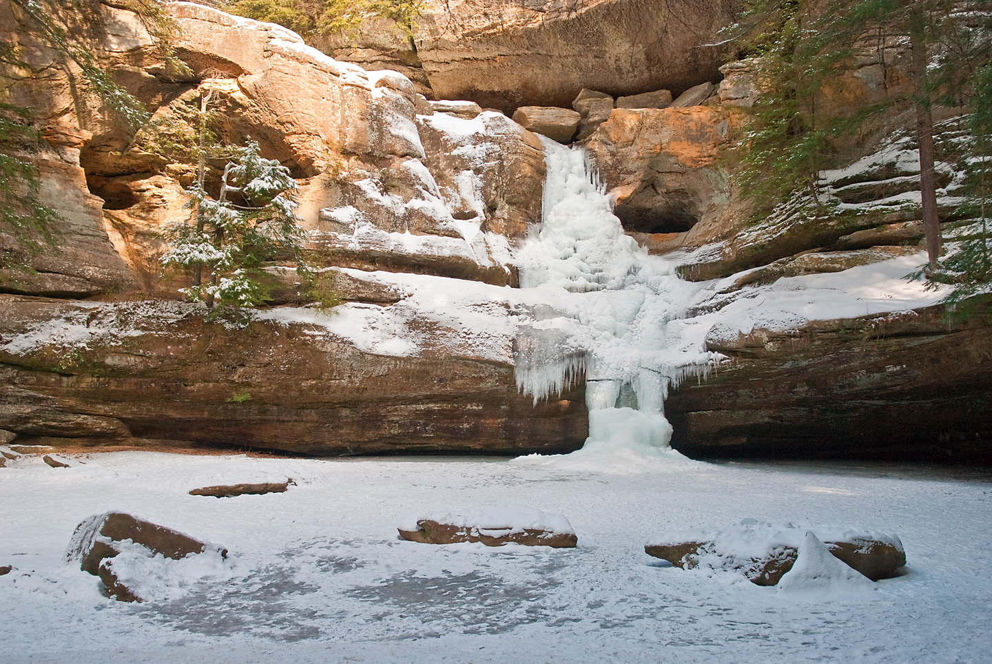 Cedar Falls in the Winter